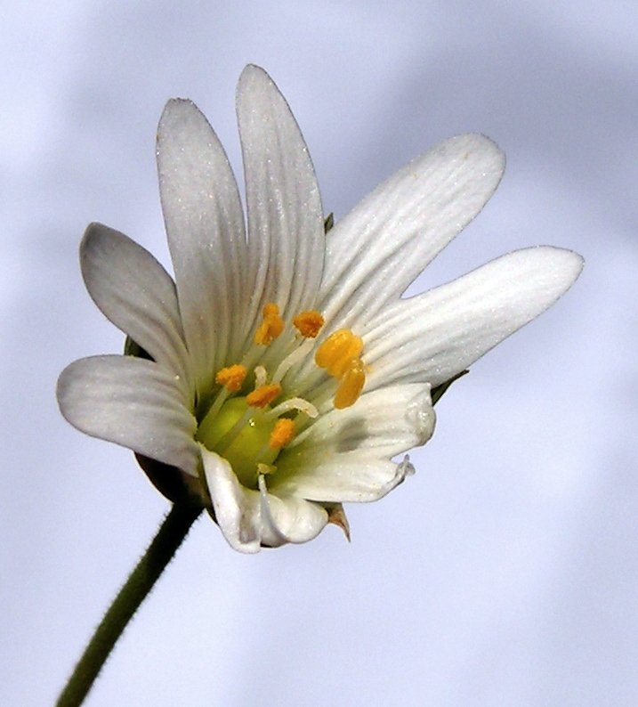 The flower of Cerastium arvense. Moscow region, Russia.